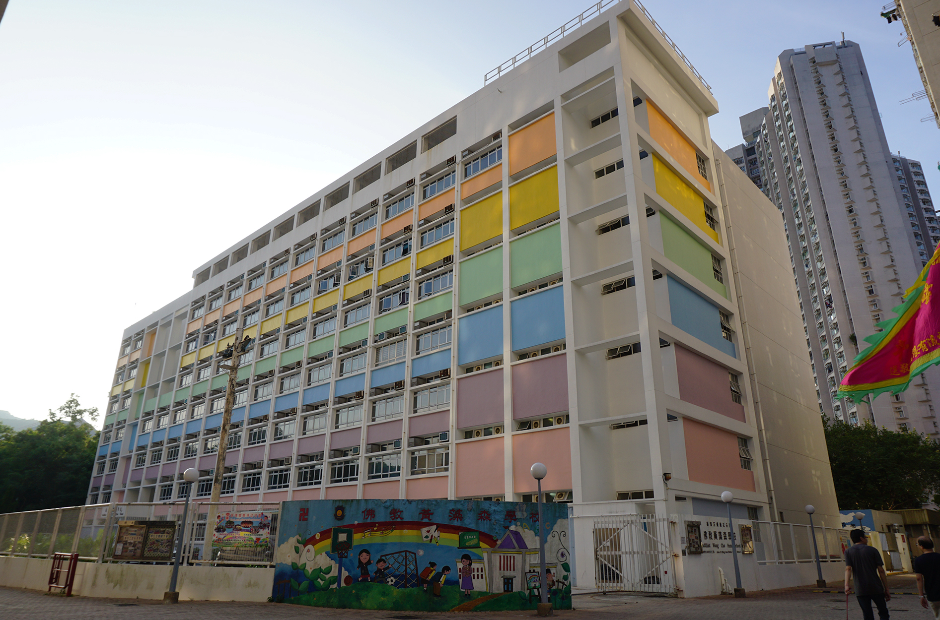 HHCKLA Buddhist Wong Cho Sum School in Po Lam, Hong Kong.